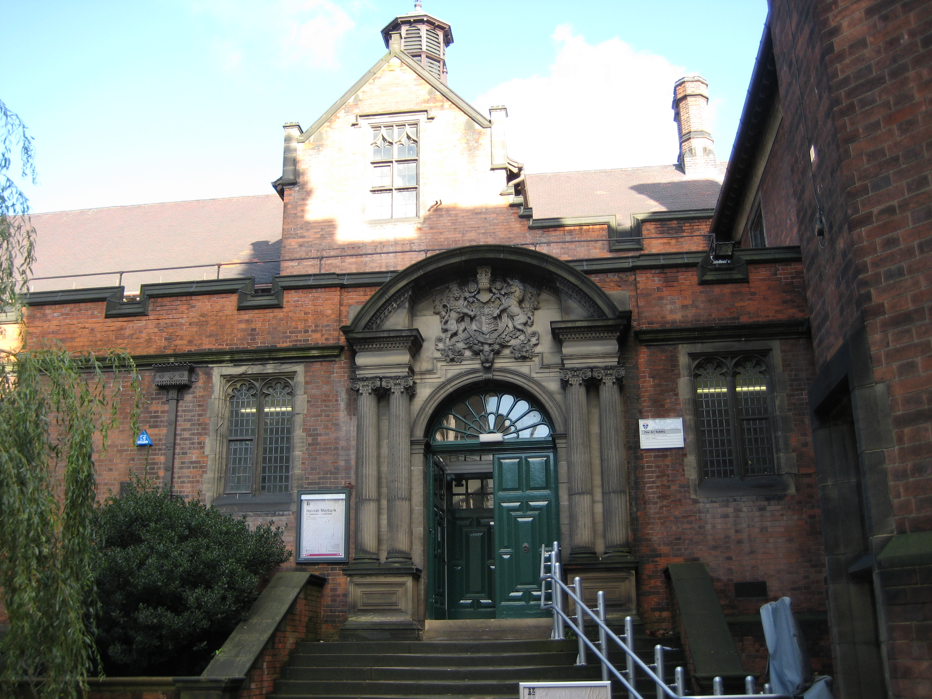 Source: Xtrememachineuk (talk) 22:26, 5 November 2008 (UTC)